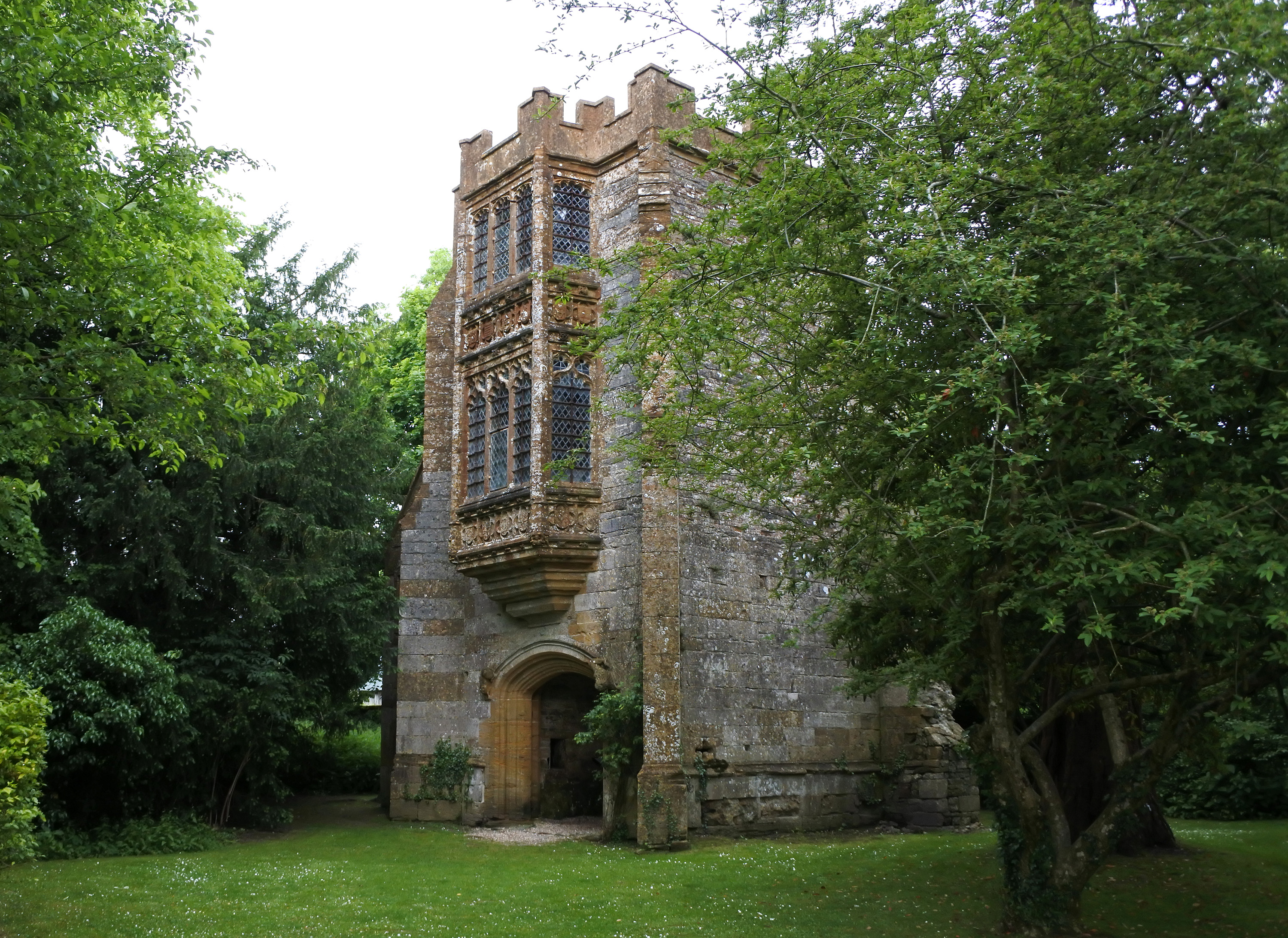 Cerne Abbey in Cerne Abbas, Dorset, England.